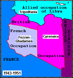 A map of Libya during the time of occupation by allied powers from 1943-1951.